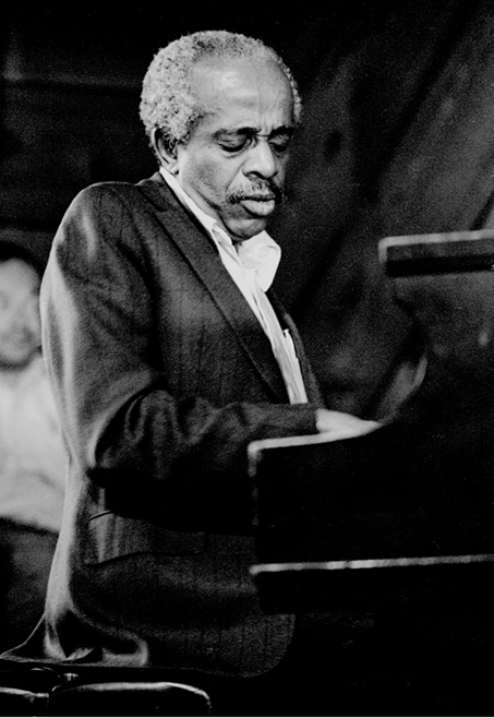 Barry Harris at Bach Dancing & Dynamite Society, Half Moon Bay CA 1981. Photo by Brian McMillen.